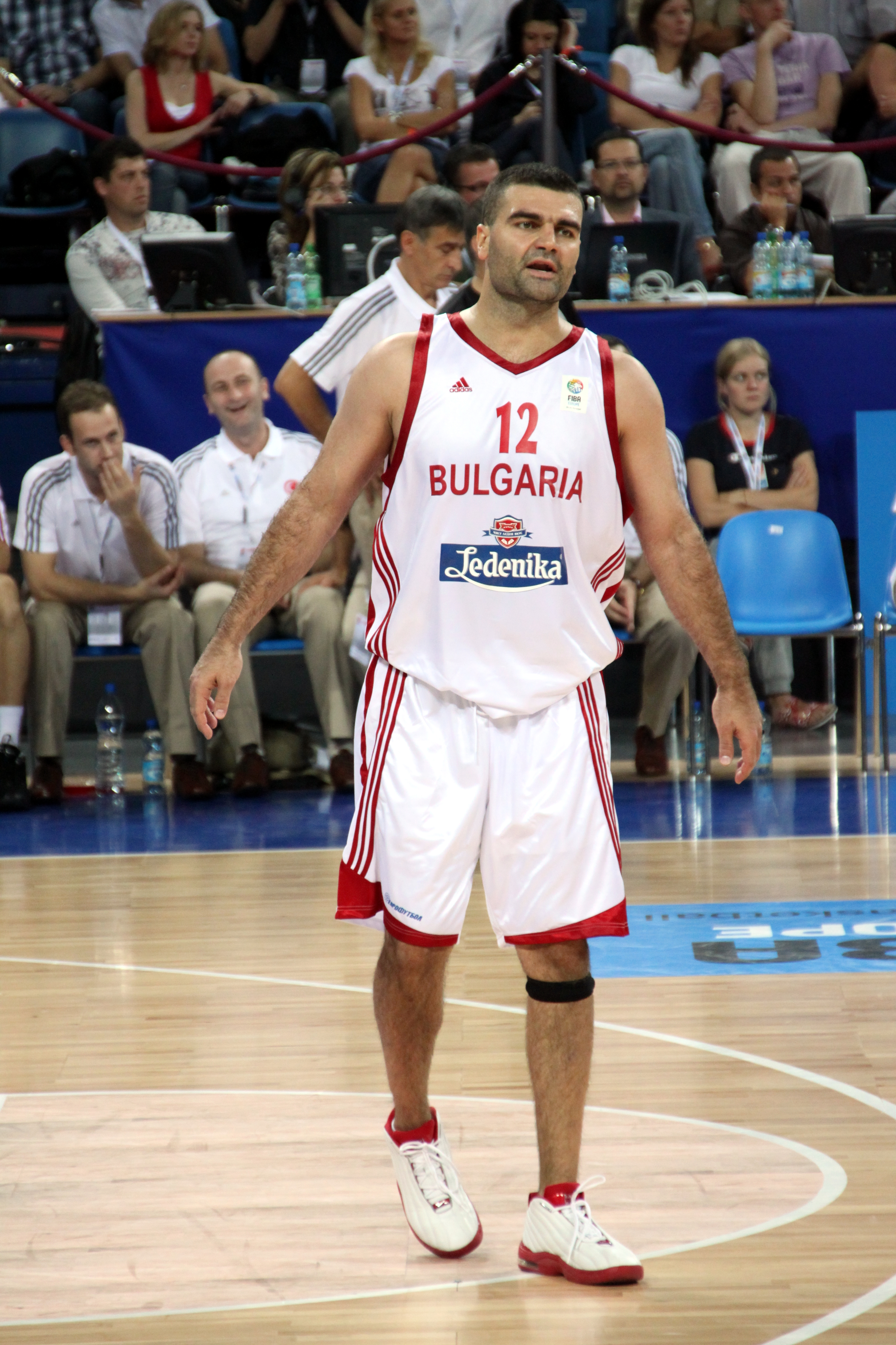 Vassil Evtimov during EuroBasket 2009.